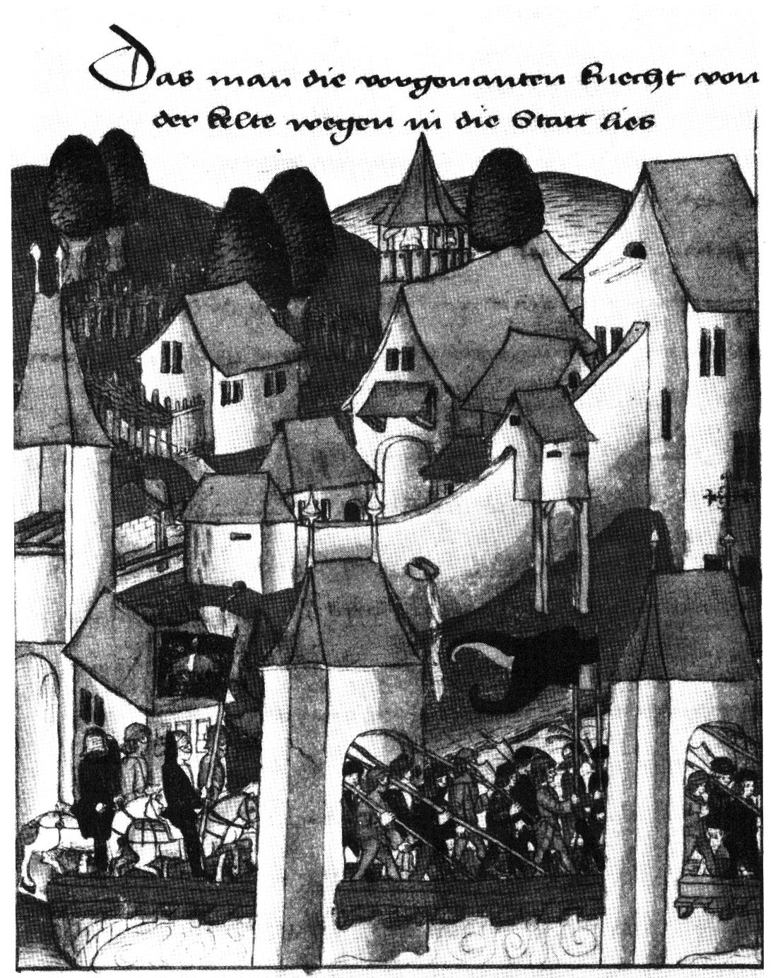 Manuscript illustration of the Untertorbrücke in Berne, Switzerland. Entry of the Saubannerzug into the city, 1477.